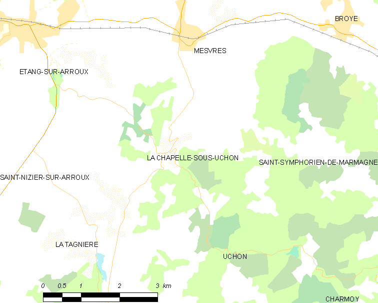 Map of French municipality